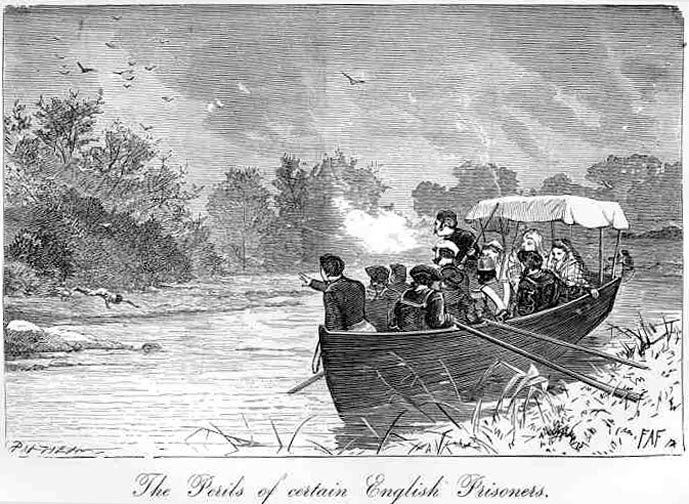 Illustration for Dickens story